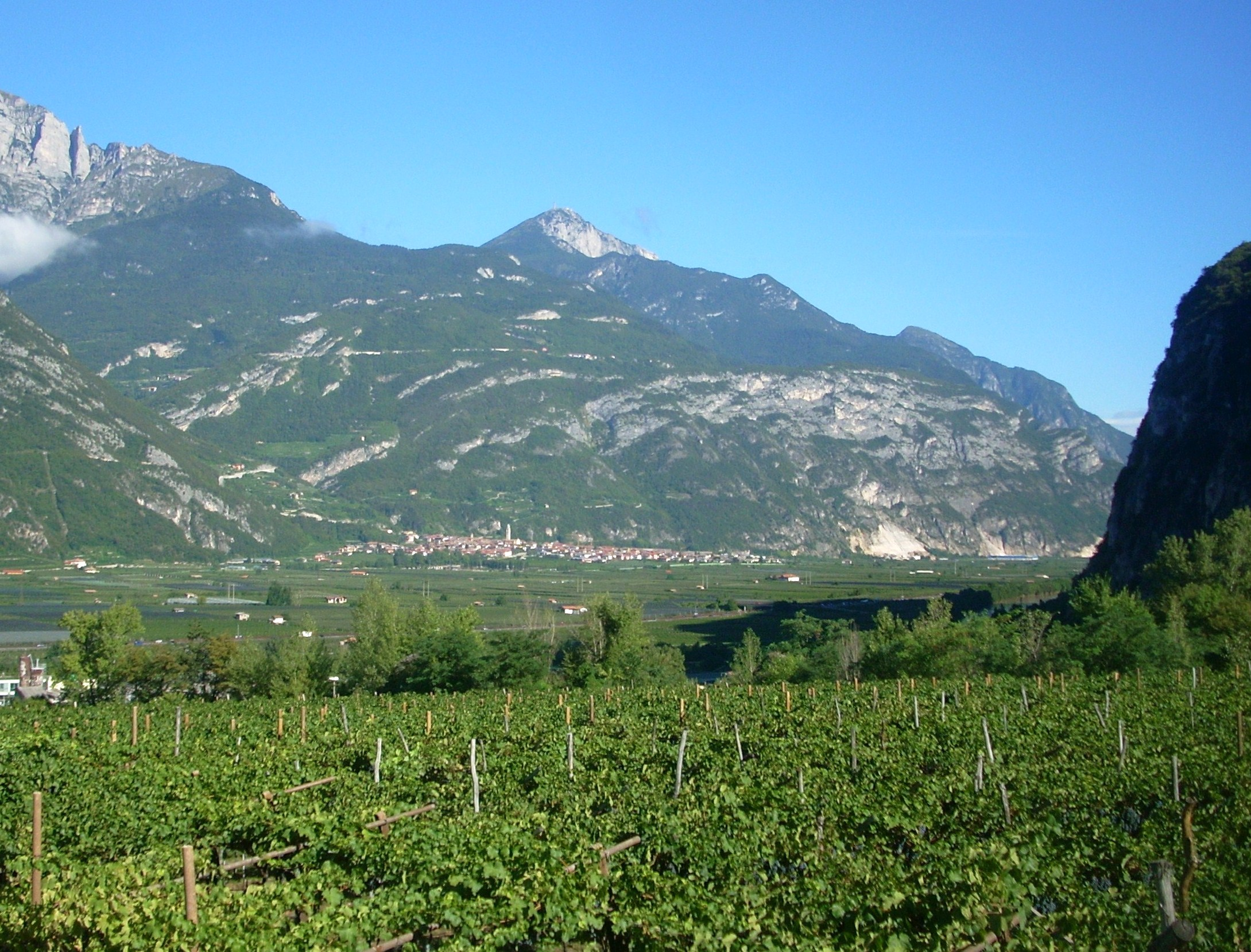 View of Aldeno from Besenello (Province of Trento, North Italy)